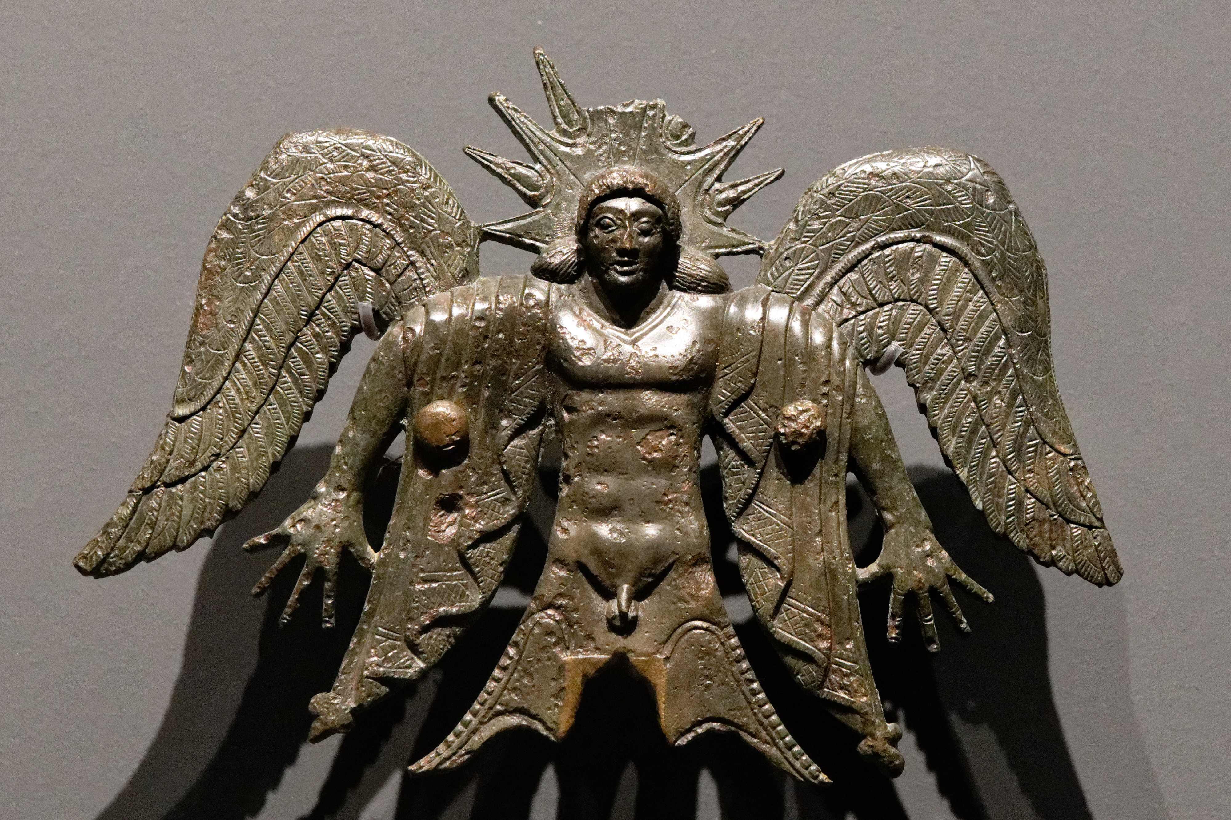 Chariot fitting with the Etruscan Sun god Usil. Said to be from Vulci.